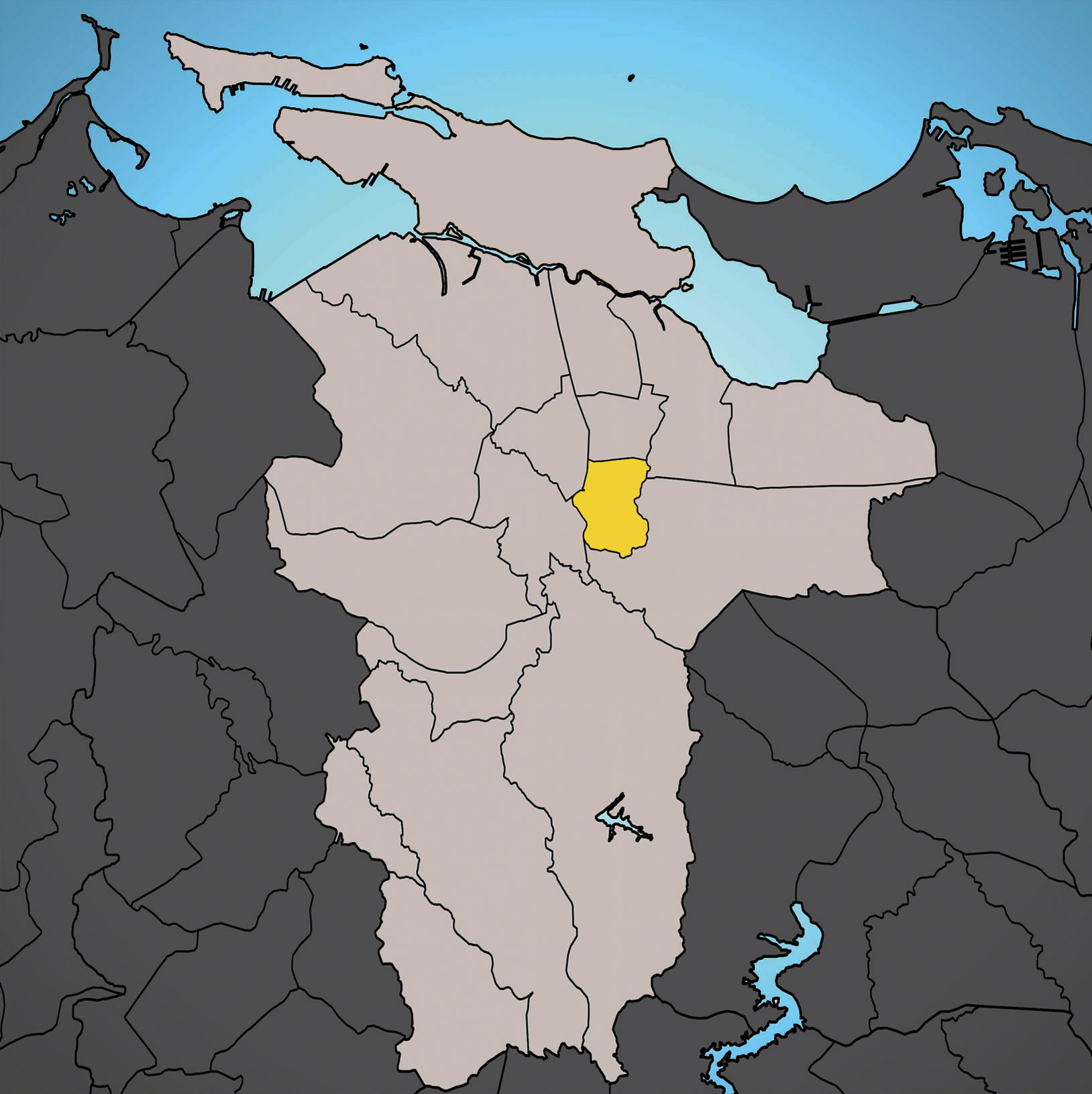 Río Piedras Pueblo was originally known for being part of the one-time and bygone Río Piedras Municipality. It was merged with San Juan in 1951.